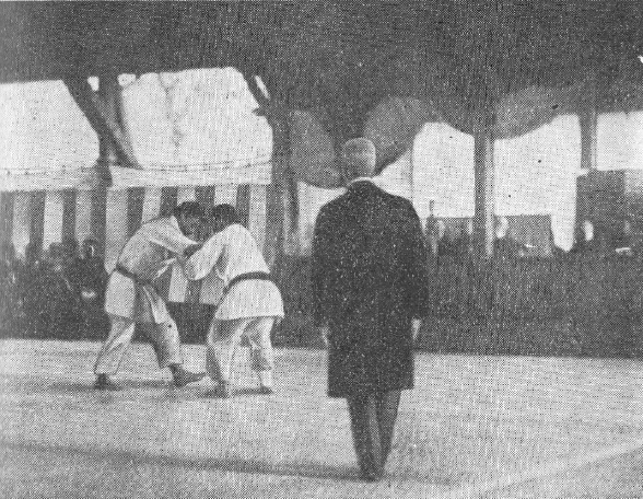 Japanese judoka, Eiji Abe (left), Tamio Kurihara (center) and Yoshitsugu Yamashita (right), at the semifinal of Shōwa Tenran Jiai in 1929.